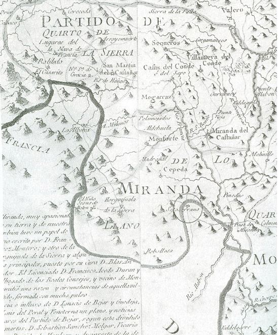 Mapa de las Hurdes Siglo XII